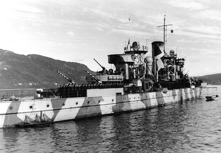 Original caption: "Nymphe (German Anti-Aircraft Ship, 1940. Formerly Norwegian Tordenskjold) Anchored in a Norwegian harbor during World War II. Note her 105mm A.A. guns with camouflaged barrels, and crewmen standing in formation on deck."